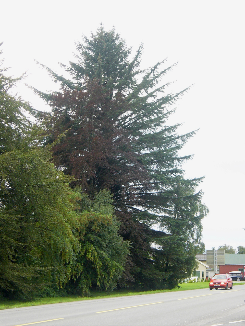 Picea sitchensis from Molde, Norway.